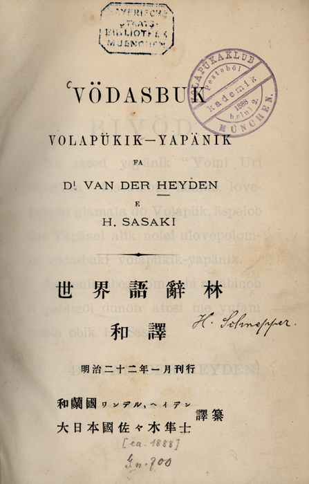 Title page of a dictionary Volapük-Japanese published in 1888 by the Dr Van Den Heyden and H. Sasaki. Volapük: Tiädapad vödabuka Volapükik-Yapänapükik pepübon in 1888 me dokan Van Den Heyden e H. Sasaki.